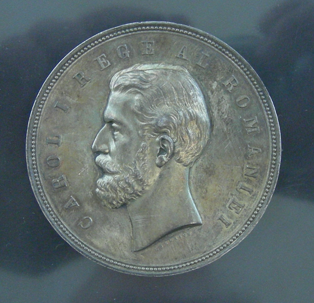 Medal of Carol I of Romania. Museum of Romanian History in Bucharest, Romania. Inscription (in Romanian): CAROL I REGE AL ROMANIEI